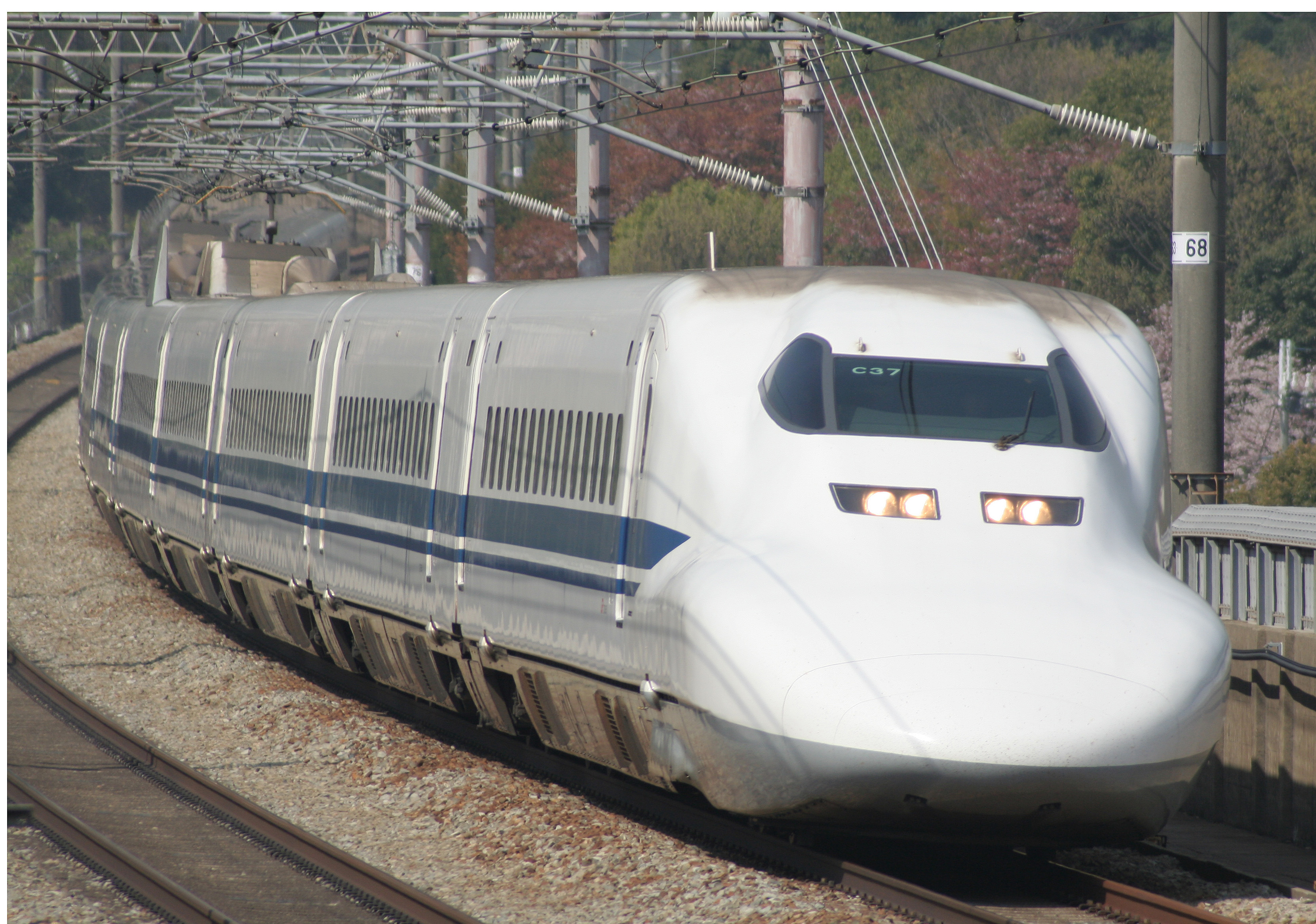 JR Central 700 series shinkansen set C37 on the Sanyo Shinkansen between Okayama and Aioi